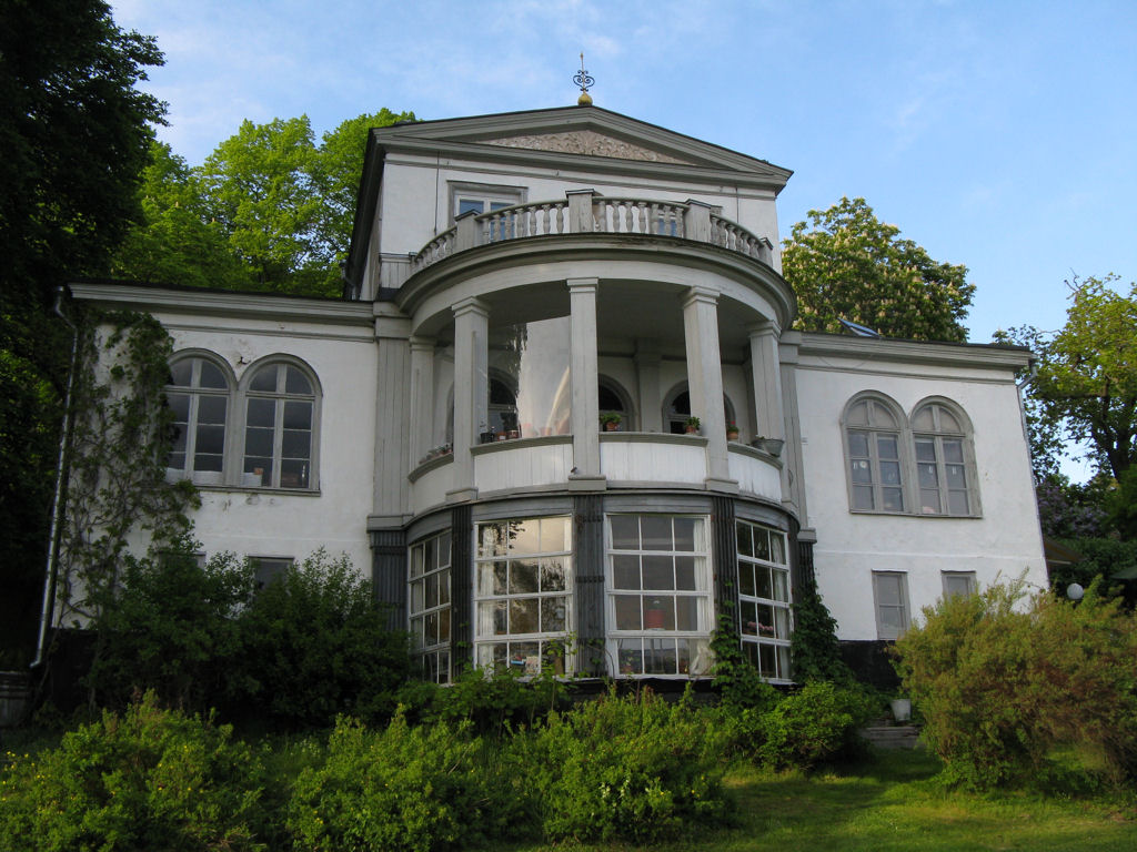 The Big Villa on Bjornholmen near Stockholm in Lake Malaren